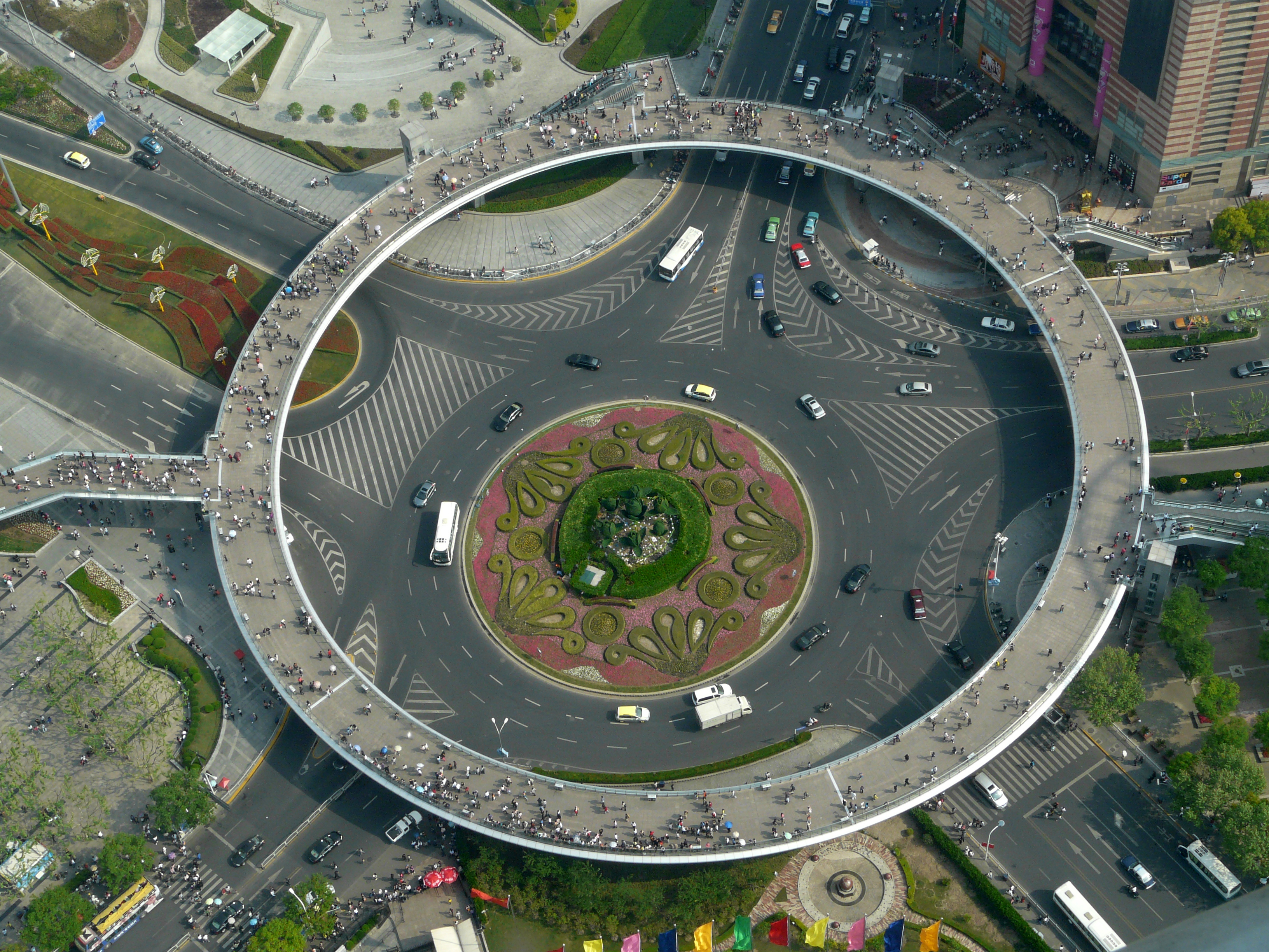 View from Oriental Pearl Tower at Shanghai